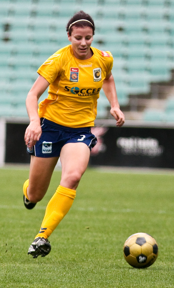 Lyndsay Glohe playing for the Central Coast Mariners against Melbourne Victory in Round 10 of the 2008 W-League.